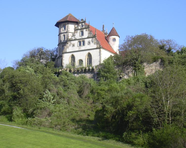 Castle chapel of Castle Liebenstein near Neckarwestheim, Germany